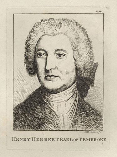 Henry Herbert, 9th Earl of Pembroke (1693-1750)